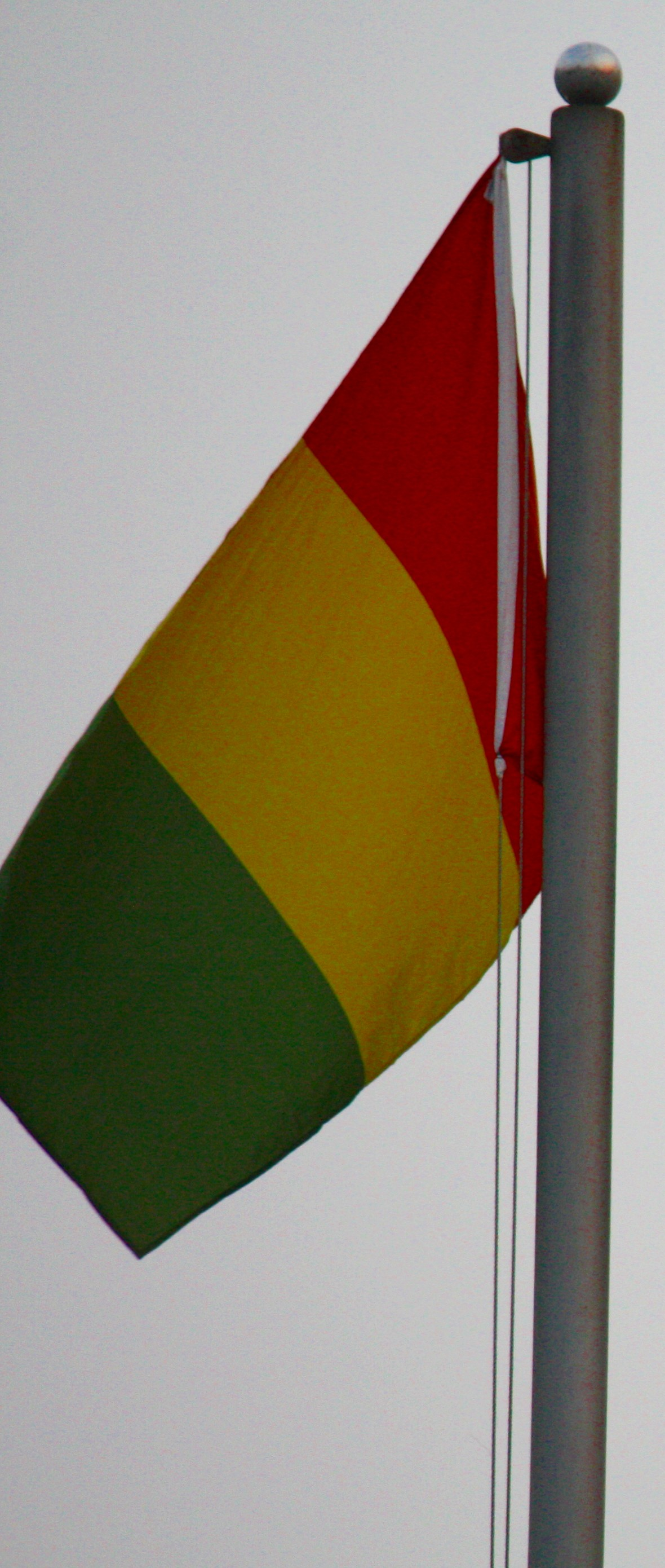 Flag of Guinea in Shenzhen